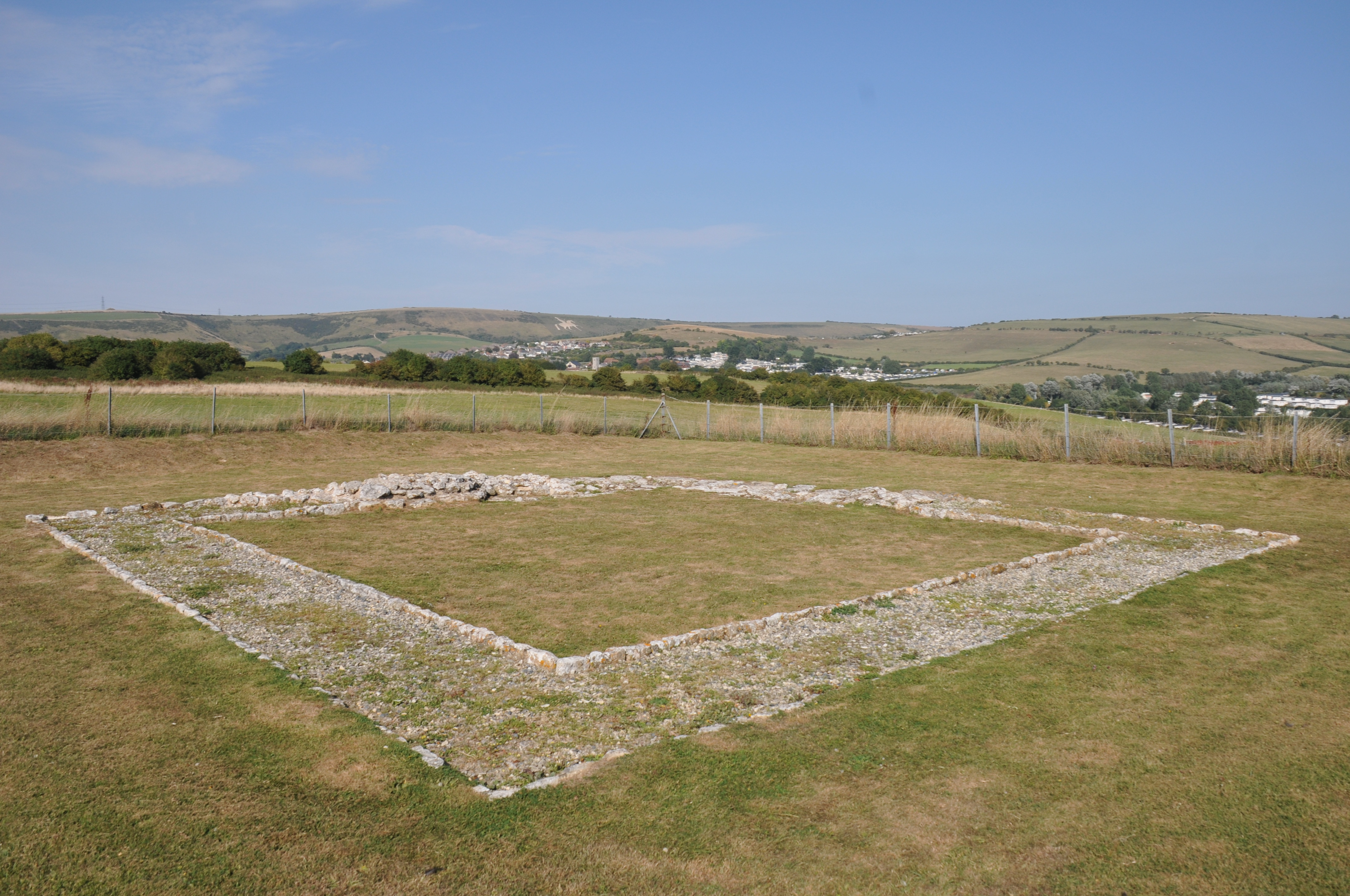 The ruins of a small Roman temple on the seacoast in Dorset.